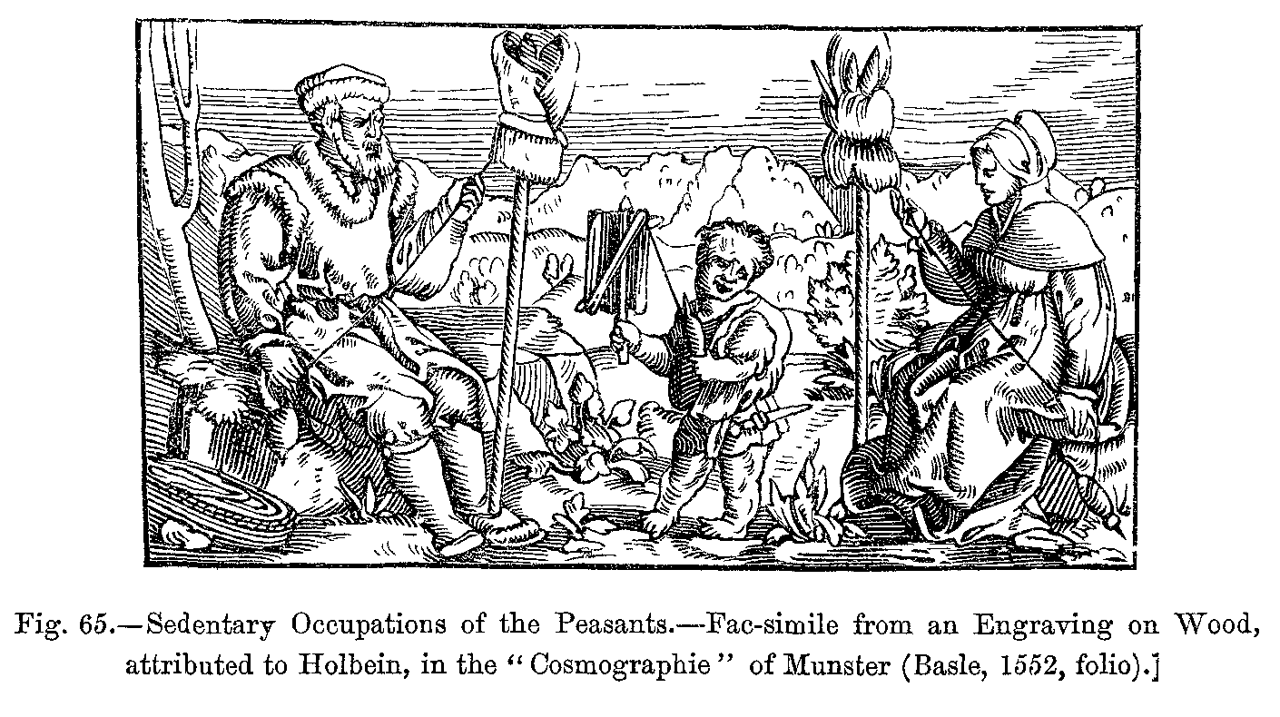 Woodcut of peasants spinning